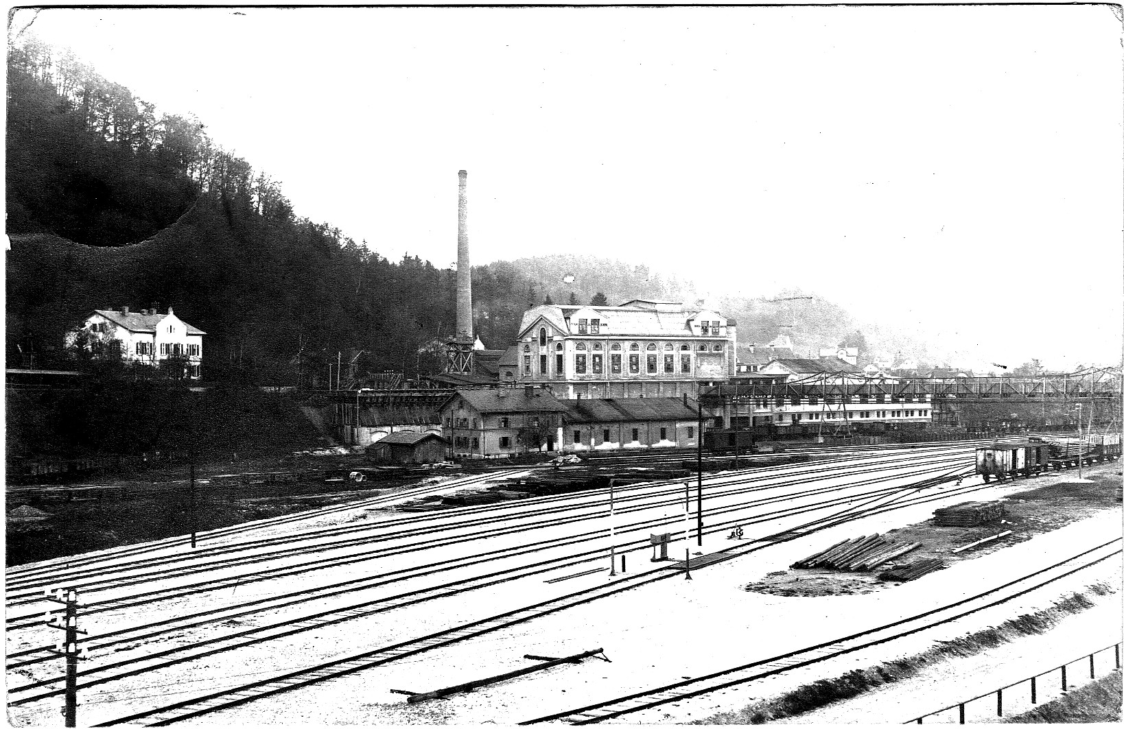 Picture postcard: Old coal washing plant in Peissenberg